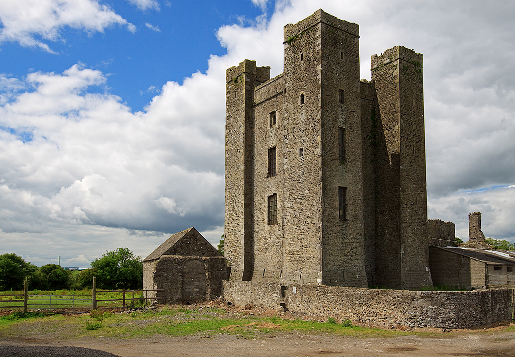 Castles of Leinster: Dunsoghly, Co. Dublin